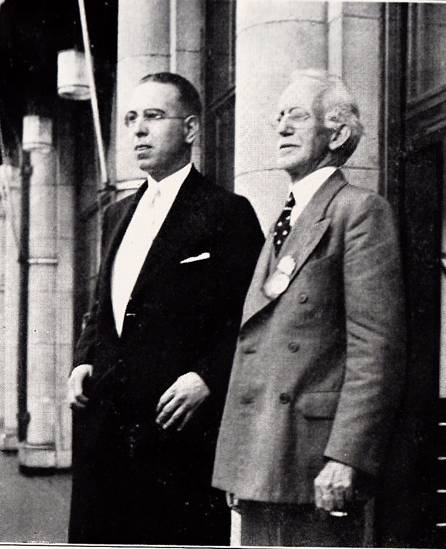 Farran Zerbe (right), founder and curator of the Chase Manhattan Money Museum, with his successor, Vernon Brown. The Numismatist was not copyrighted until 1958.